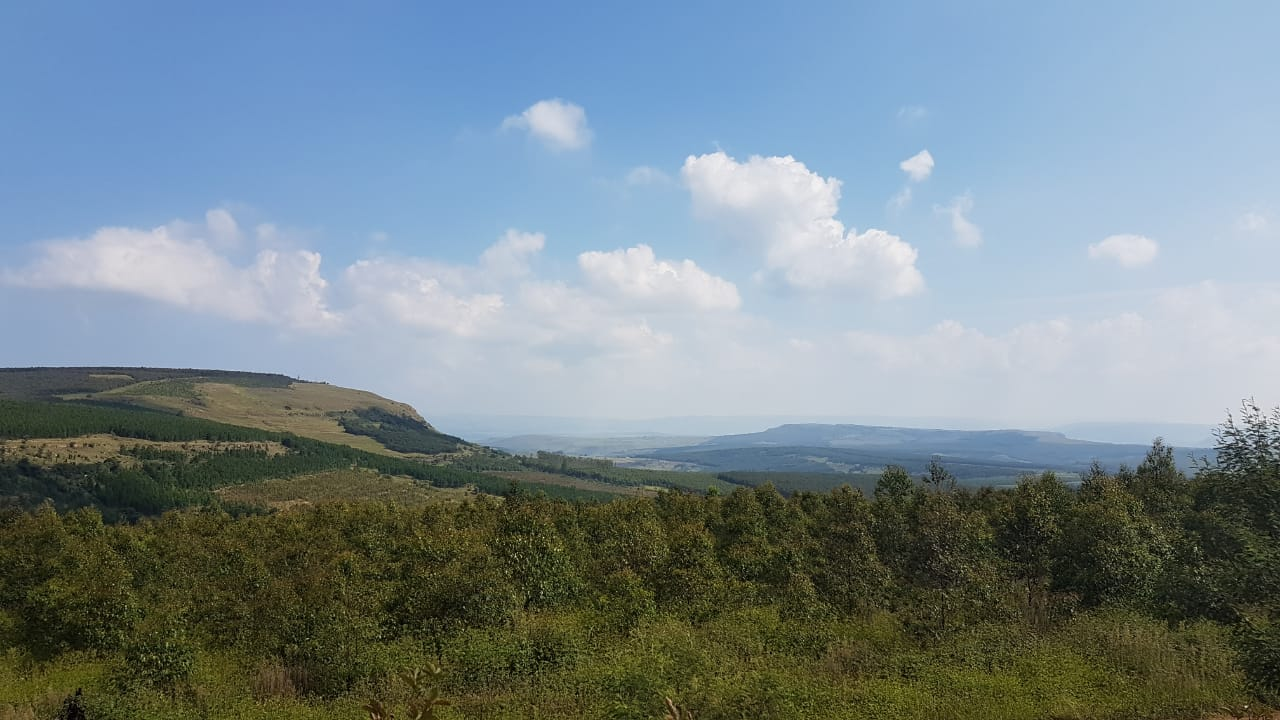 This is an image with the theme "Play" from: South Africa